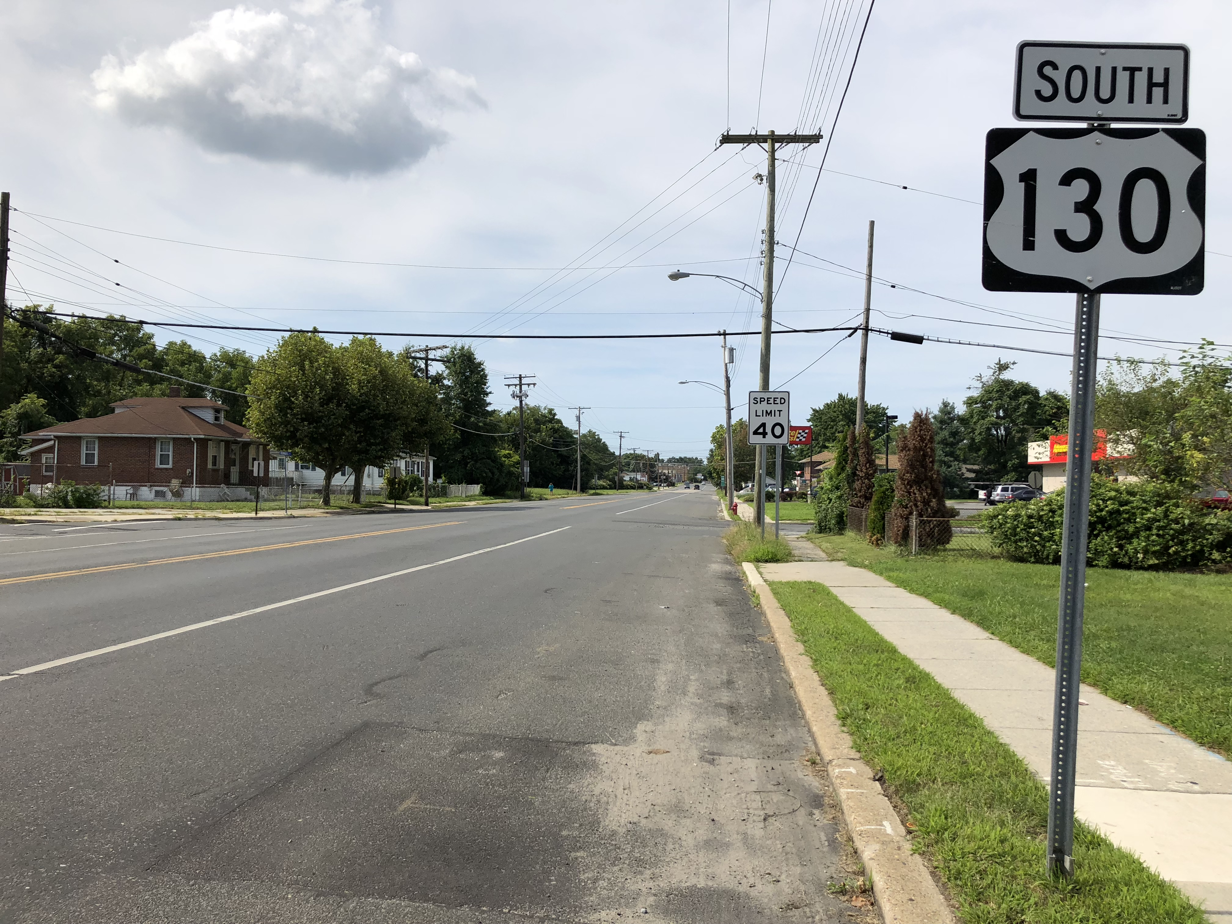 View south along U.S. Route 130 (Virginia Avenue) at Trumbull Street in Penns Grove, Salem County, New Jersey